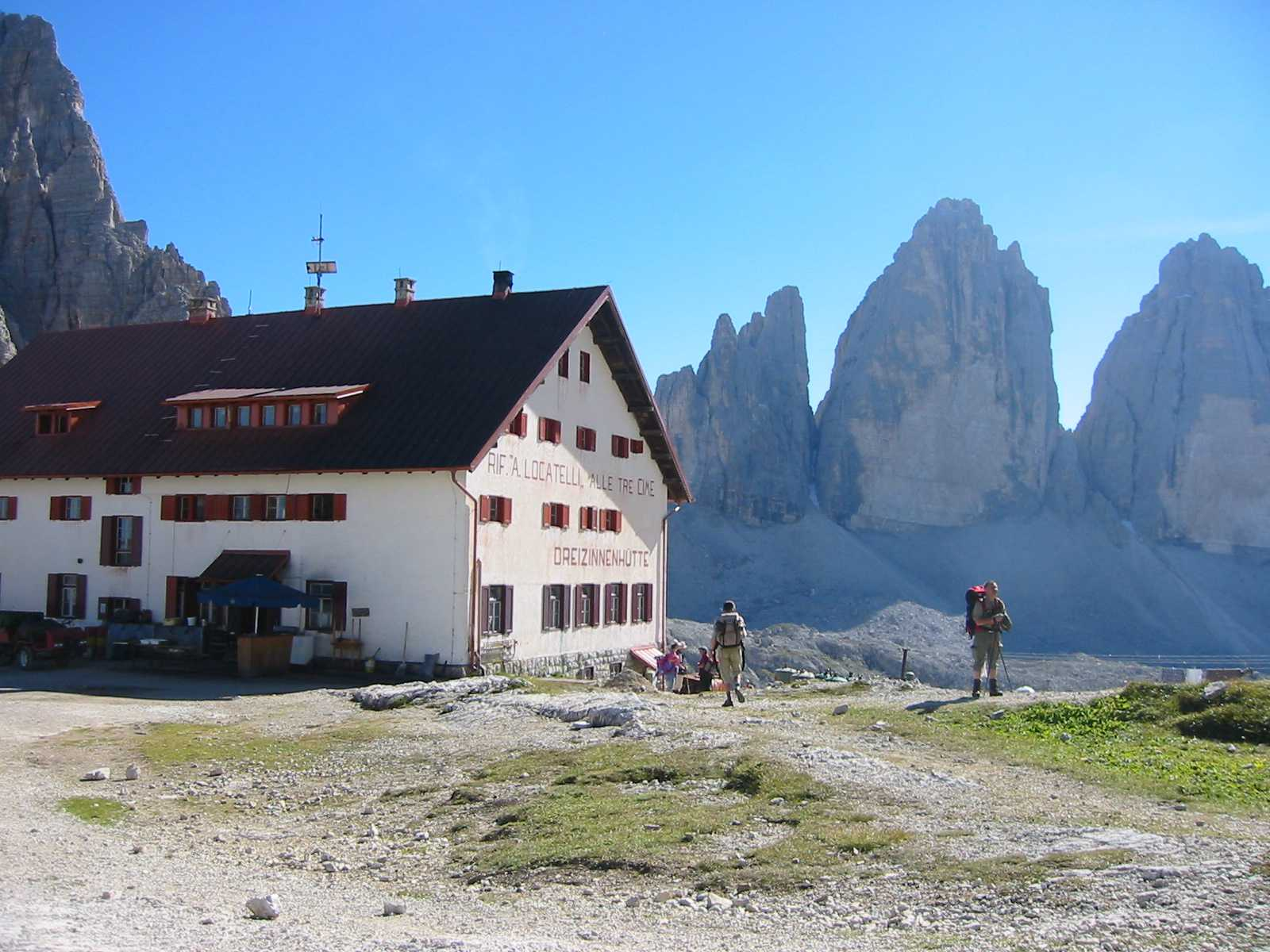 Drei Zinnen Hütte-Rifugion Locatelli 1.